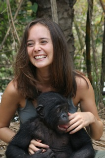 Image of Vanessa Woods with Curtis Lee Taitt at Lola ya Bonobo sanctuary in Congo